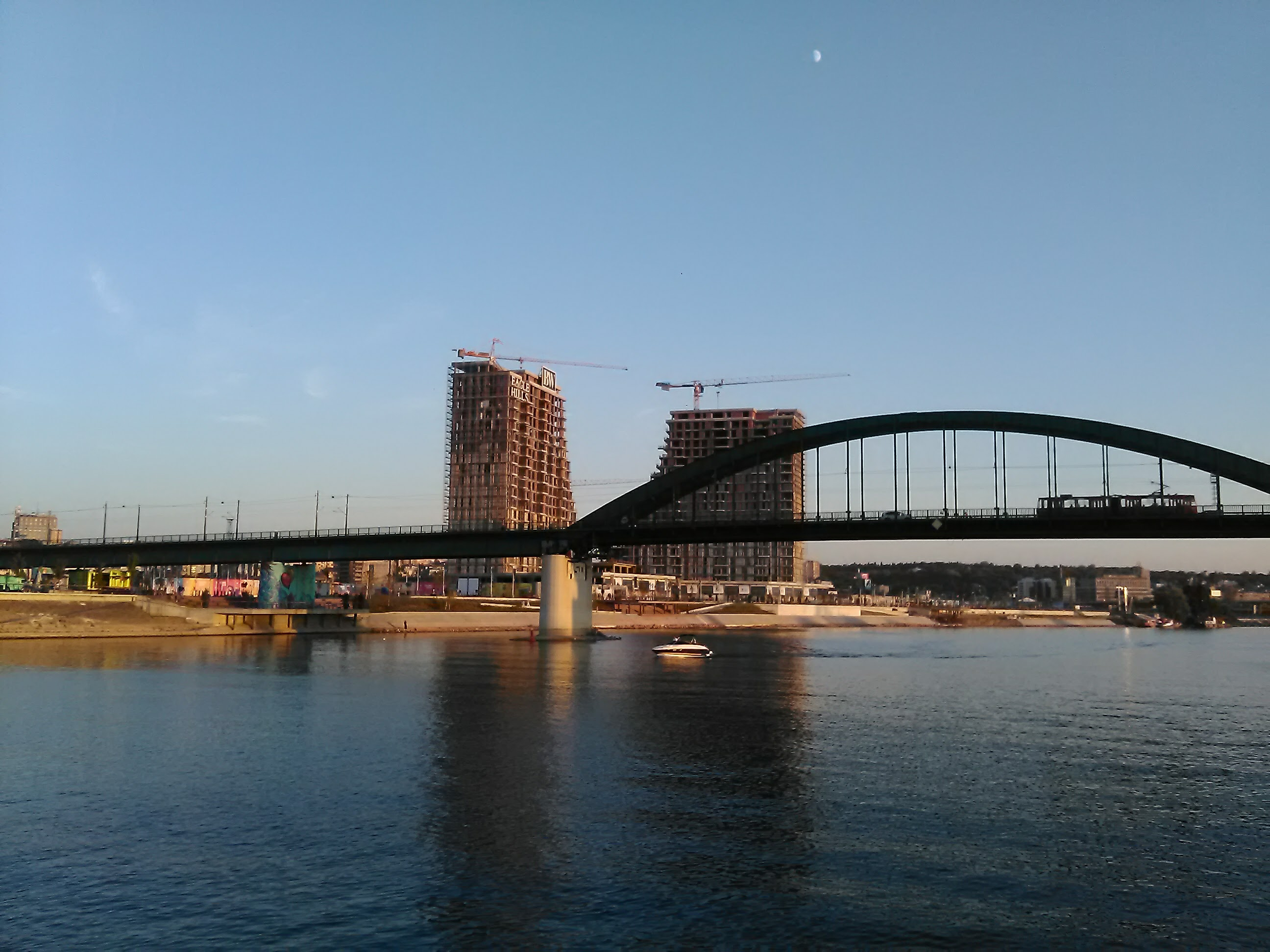 Belgrade Waterfront in Sava river